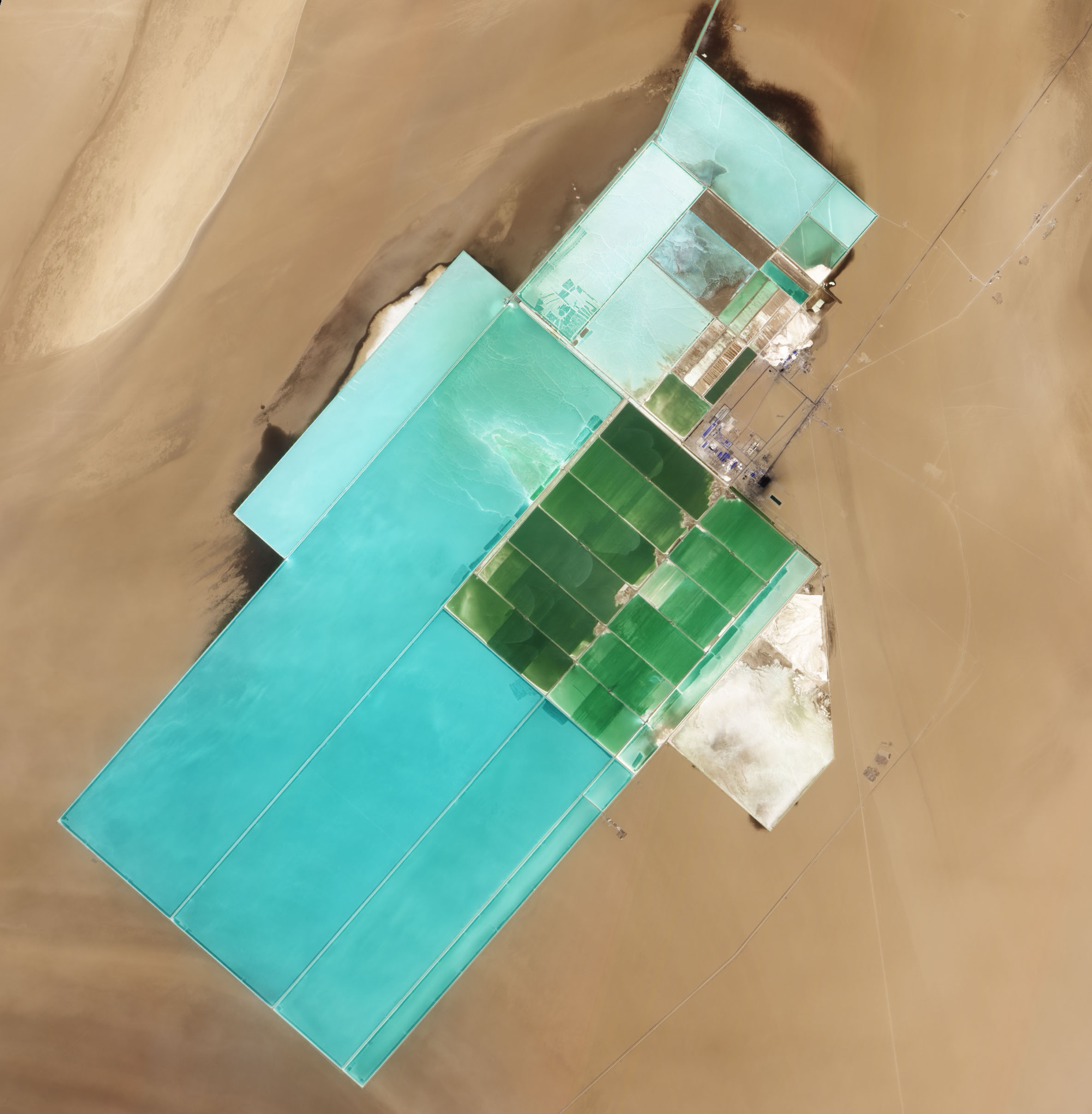 Natural-colour image of Lop Nur. The rectangular shapes in this image show the bright colours characteristic of solar evaporation ponds. Around the evaporation ponds are the earth tones typical of sandy desert.